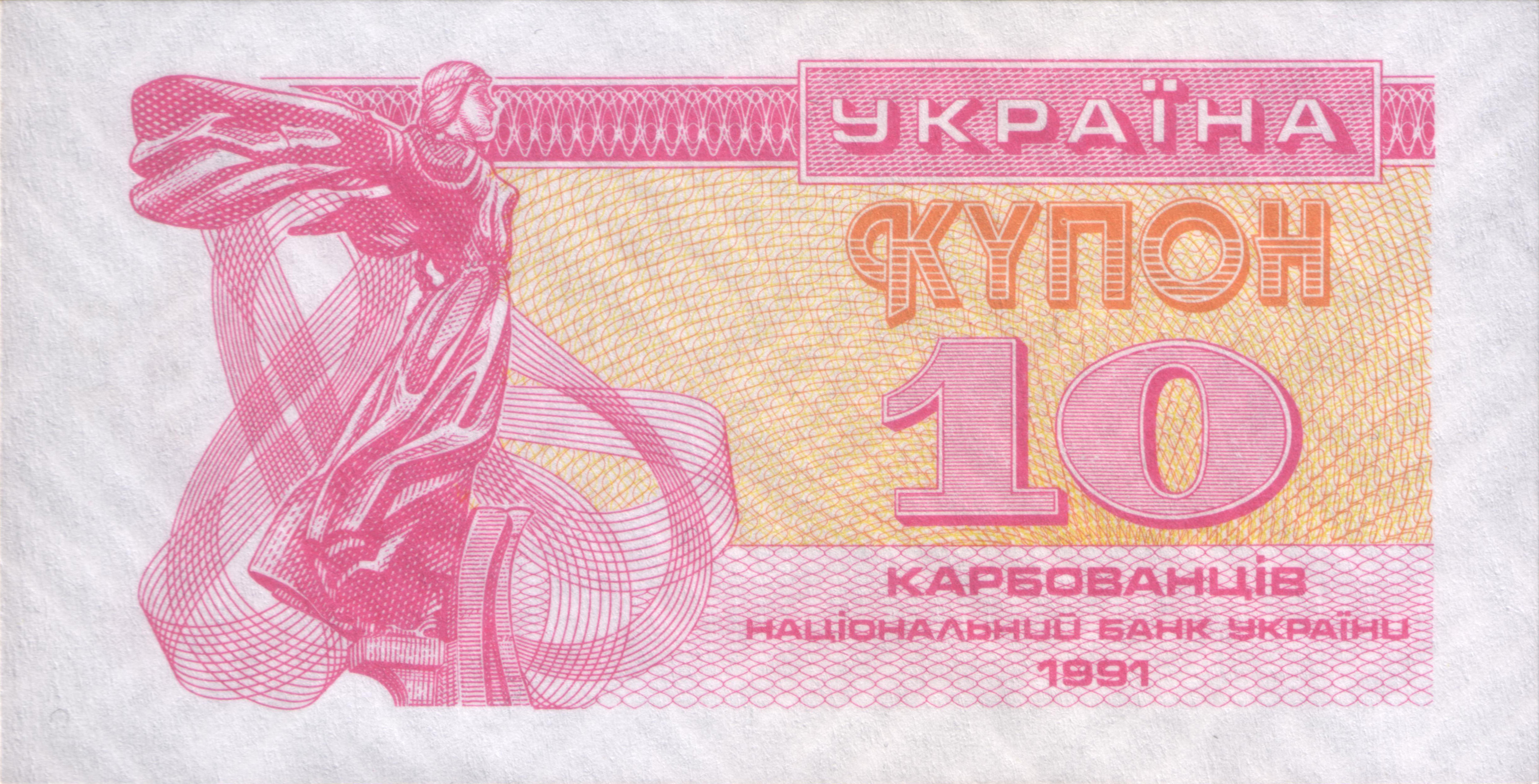 10 karbovanets (1991)